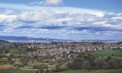 View over Neilston, Glasgow beyond. Editted to make image more "natural". Converted to CMYK PNG file.